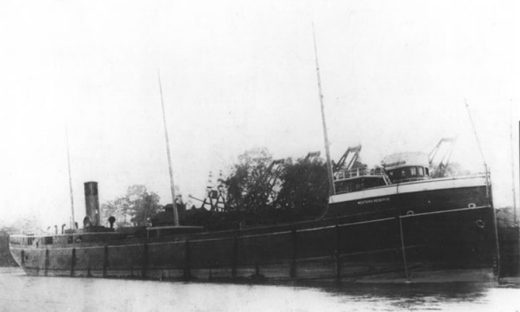 The steamer Western Reserve prior to her sinking